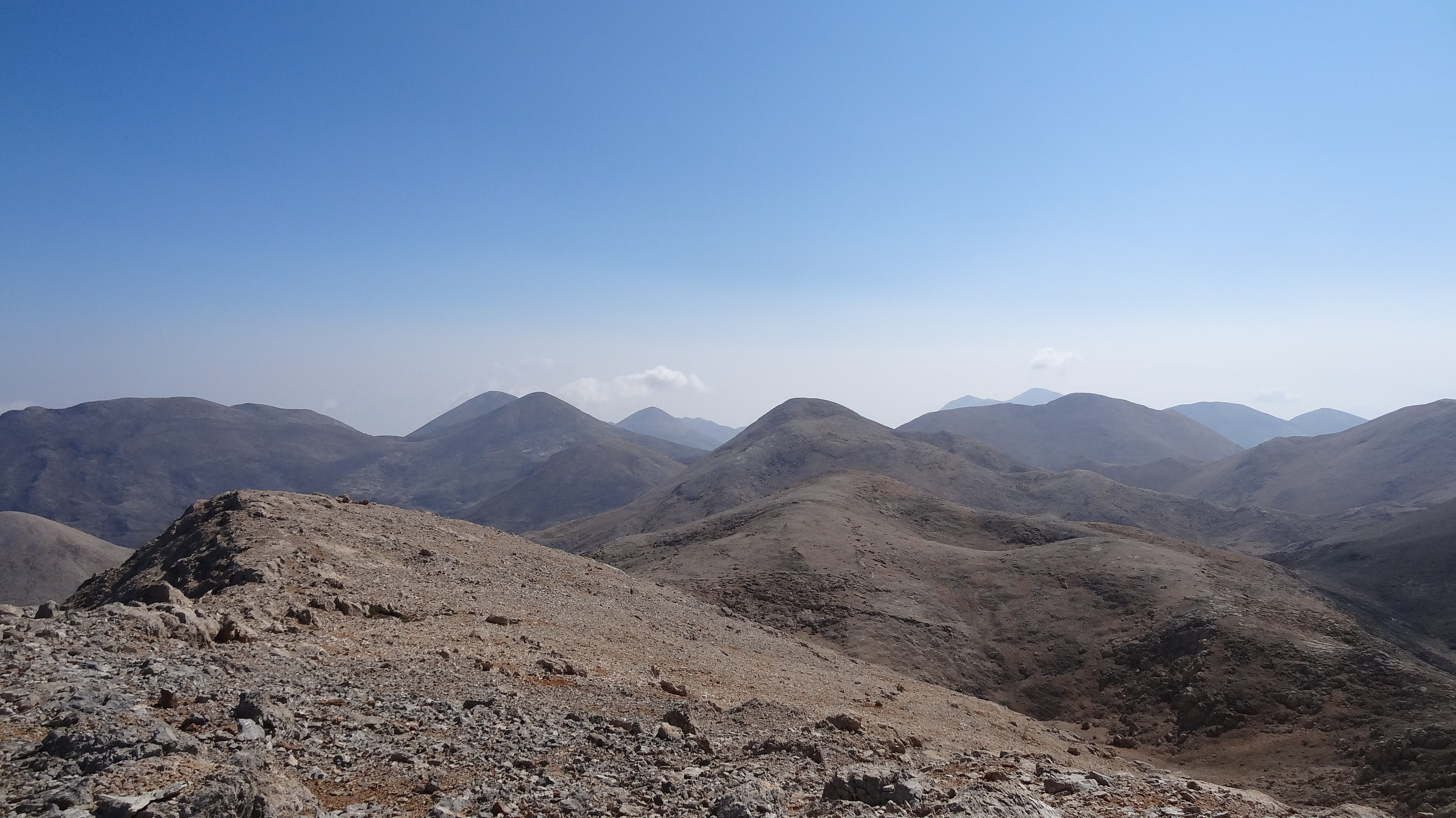 Lefka Ori, seen from Pachnes summit. View to the south